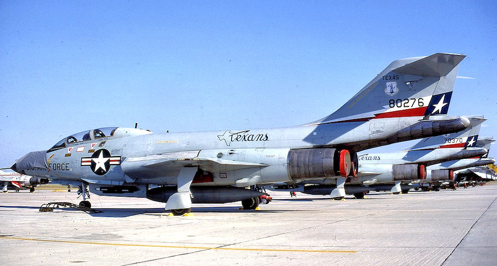 111th Fighter Interceptor Squadron - McDonnell F-101F-106-MC Voodoo 58-0276. Retired, now on static display at Museum of Aviation, Robins AFB, GA